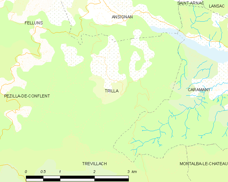 Map of French municipality